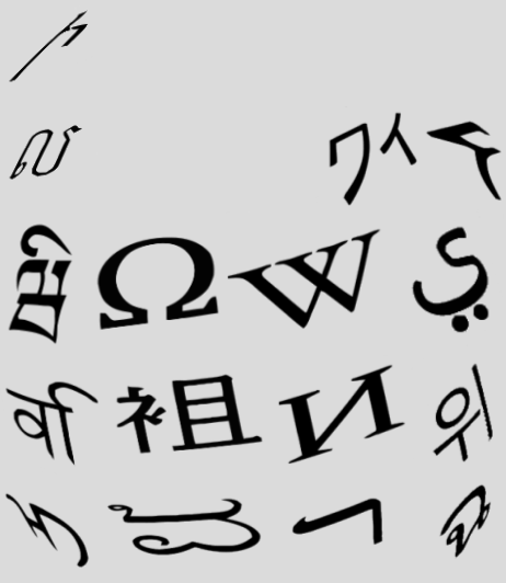 Symbols of Wikipedia logo